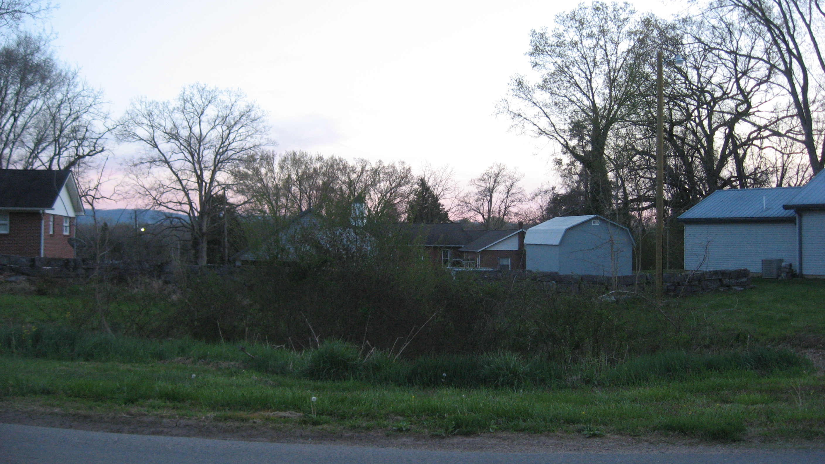 Buildings at the Jonesville Methodist Campground, located along State Route 652 on the northern side of U.S. Route 58 west of Jonesville in Lee County, Virginia, United States. The campground is listed on the National Register of Historic Places.